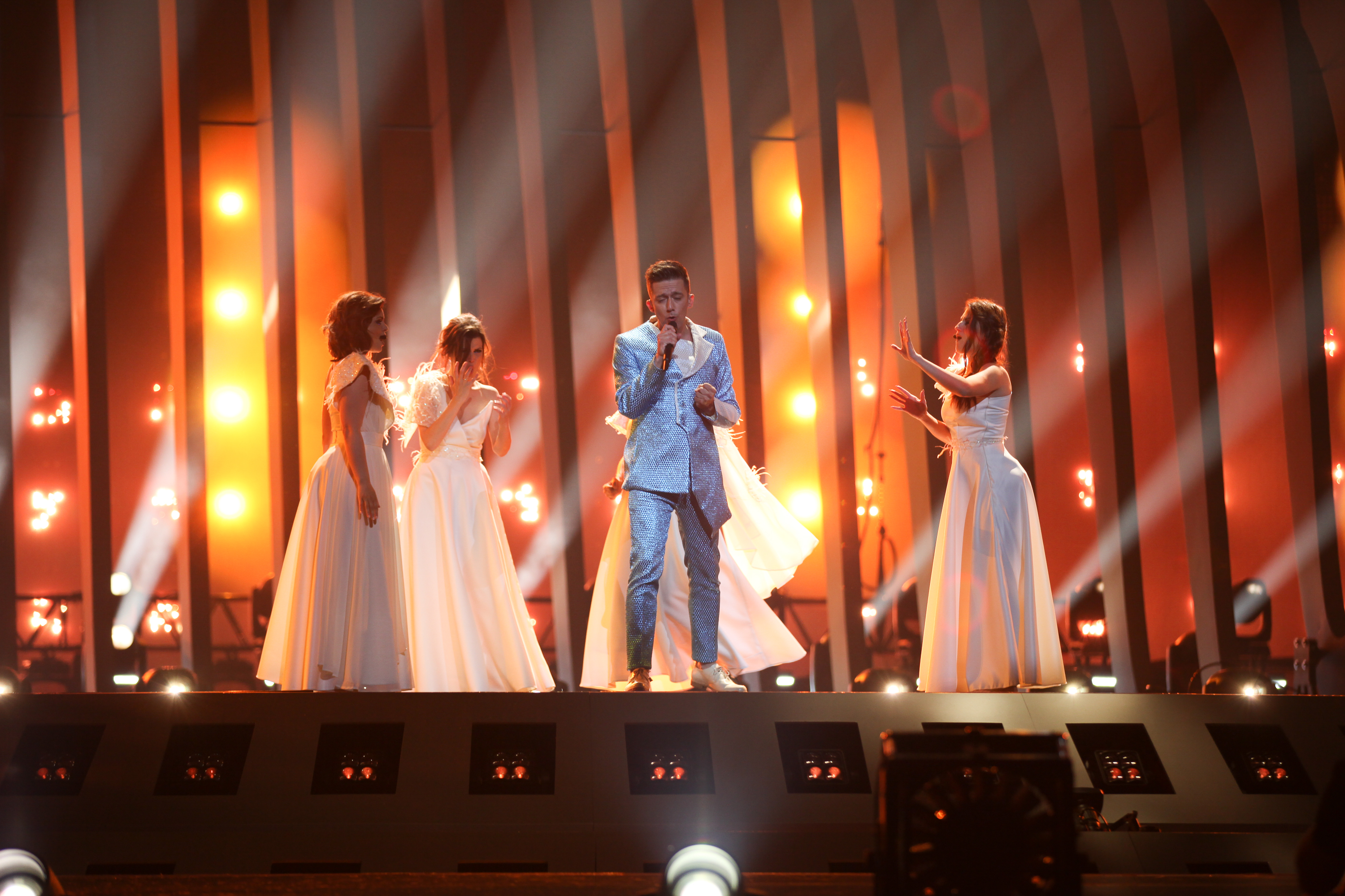 Vanja Radovanović representing Montenegro with the song "Inje" during a rehearsal before the second semi final of the Eurovision Song Contest 2018 in Lisbon.